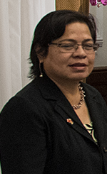 Teekoa Iuta, the Kiribati Ambassador Extraordinary and Plenipotentiary to the Republic of China